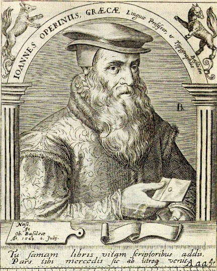 Johannes Oporinus